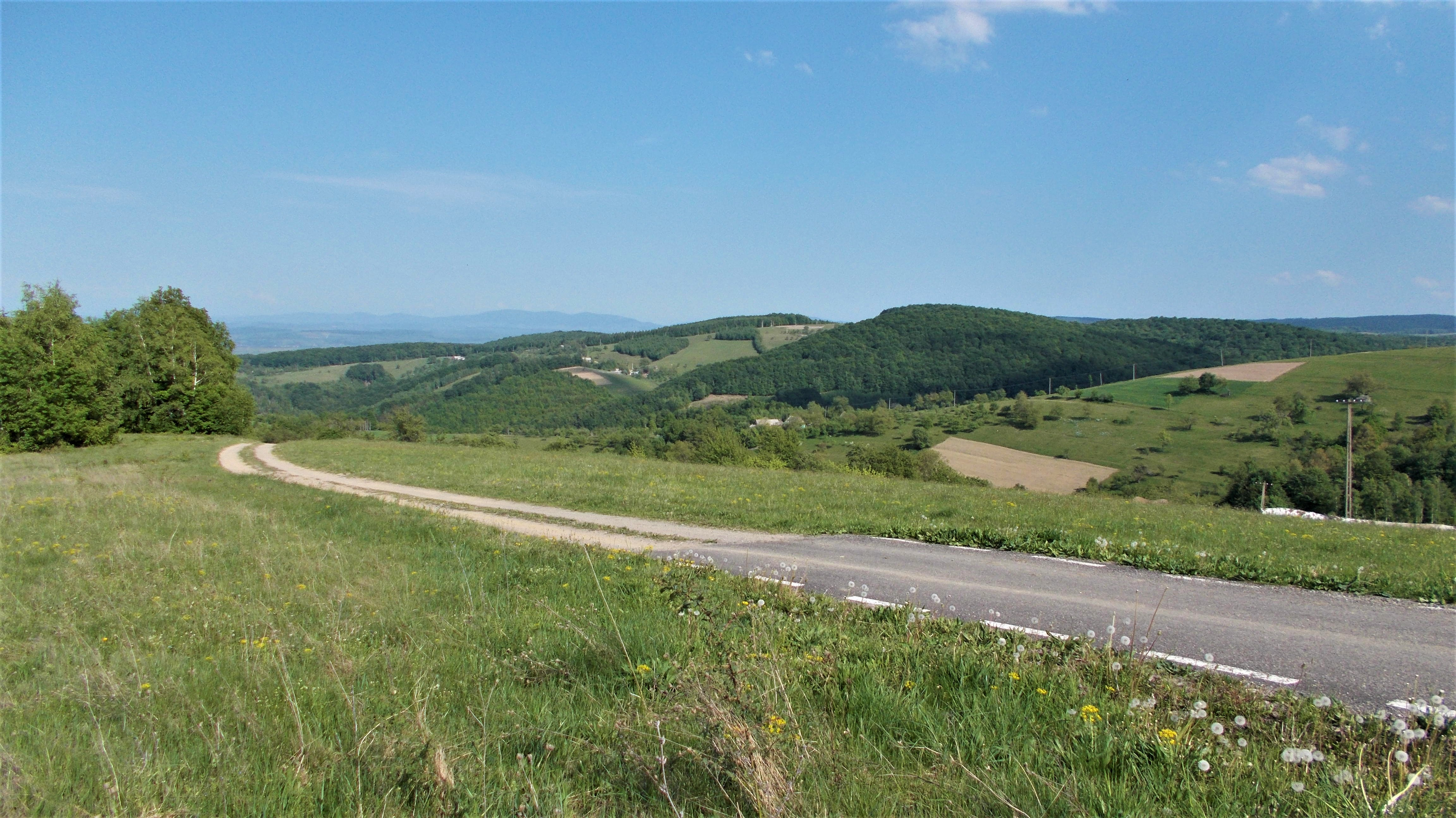 Făgetu, Sălaj County, Romania